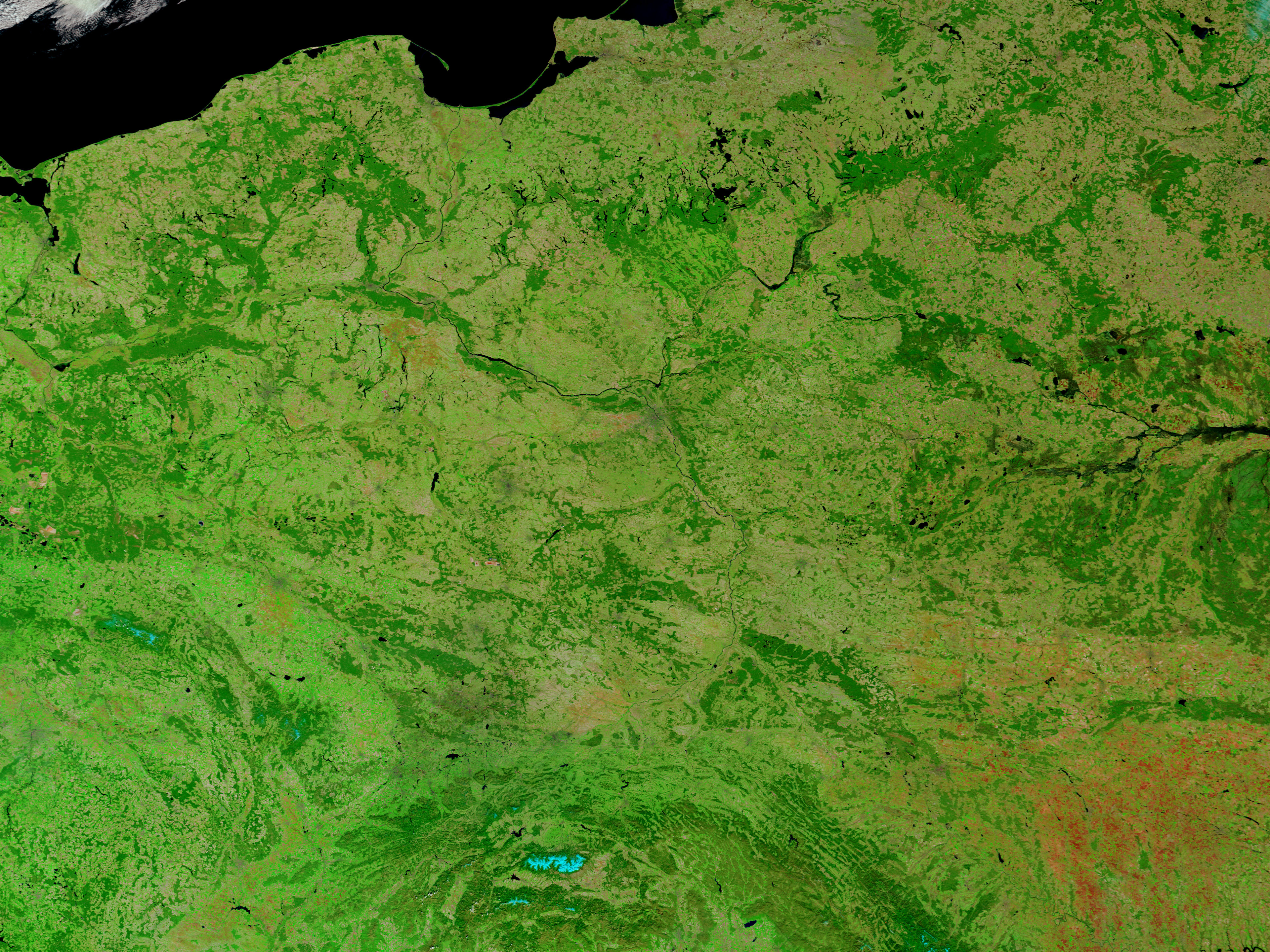 Cloud-free MODIS image of Poland